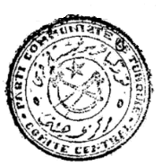 Communist Party of Turkey - Central Committee stamp 1920 - bilingual